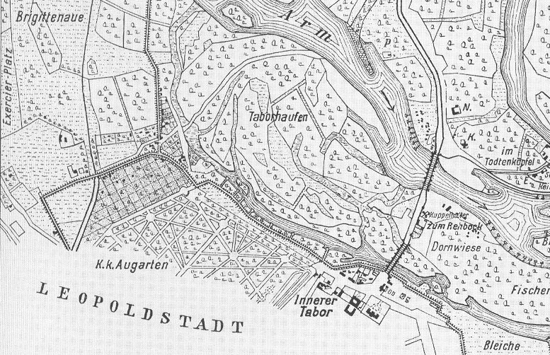 Map of Zwischenbrücken 1821